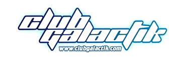 Galactik Football logo